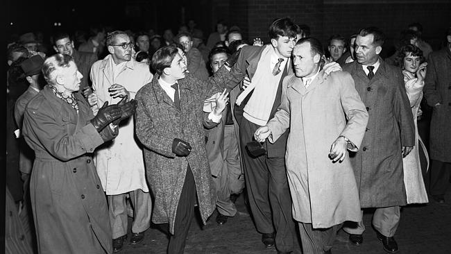 Australian rules footballer John Coleman leaves Harrison House after being suspended for four matches.